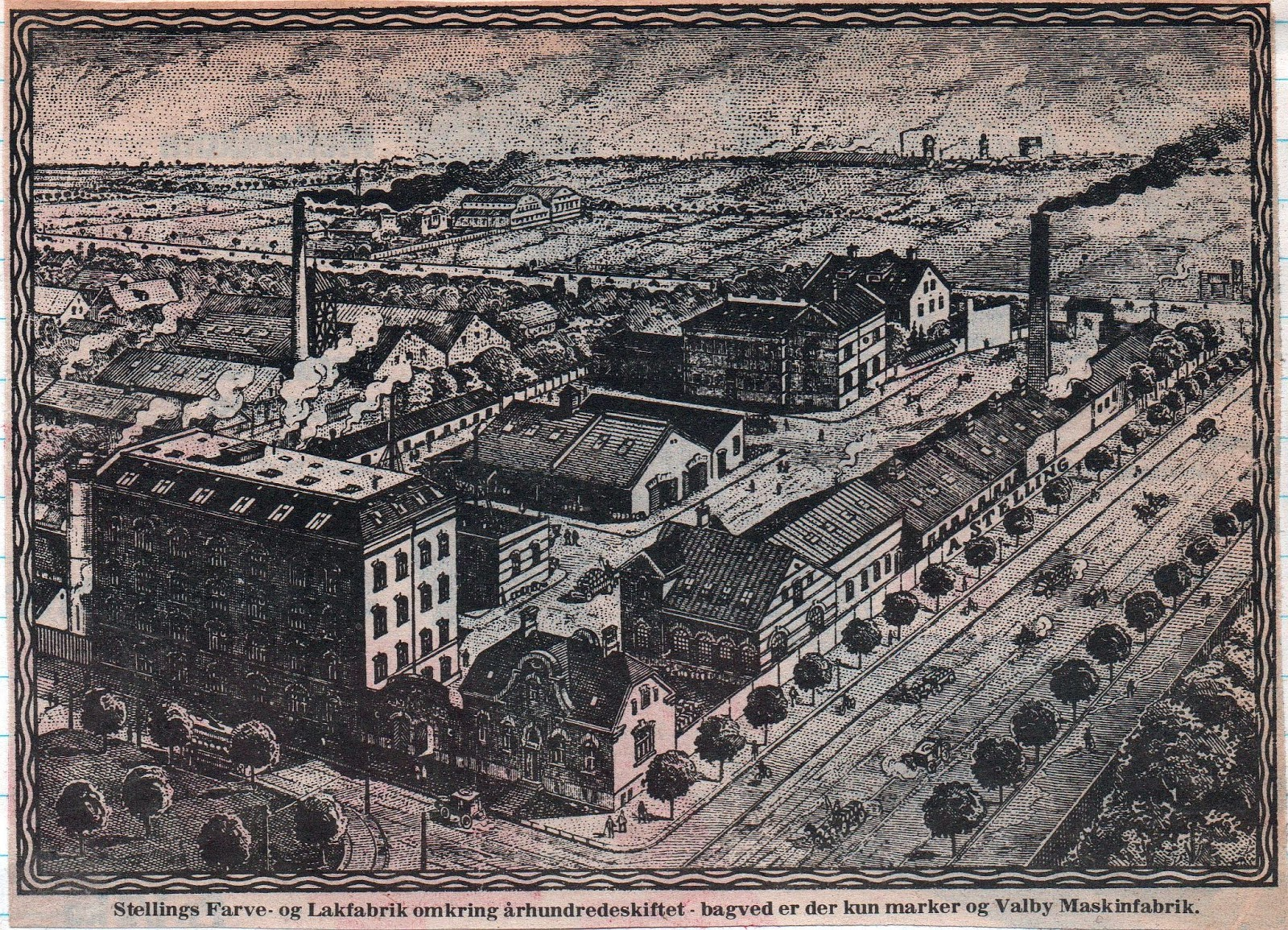 The Stellings paint factory in Valby, Copenhagen, Denmark